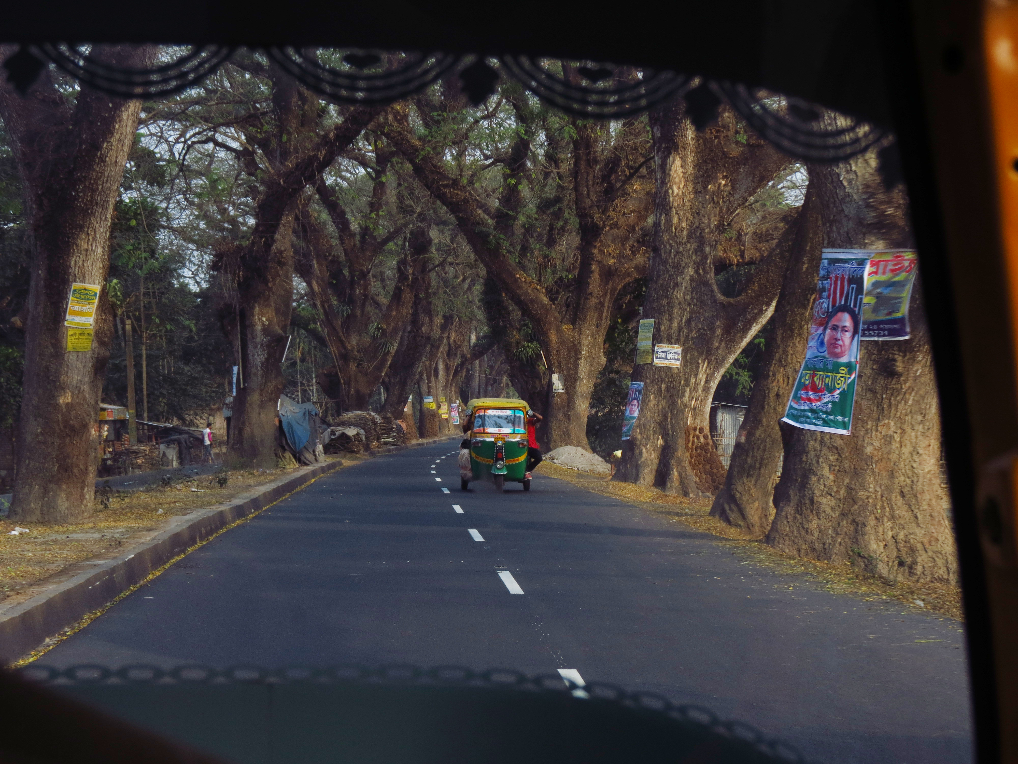 Enroute to Petrapole